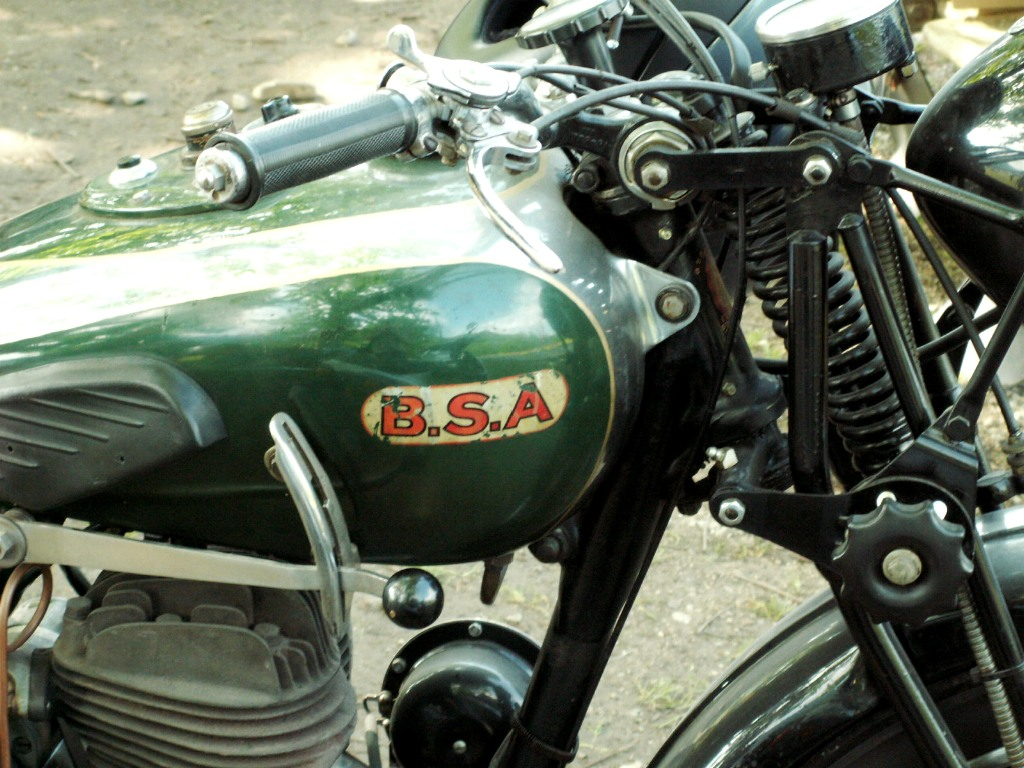 BSA motorcycle